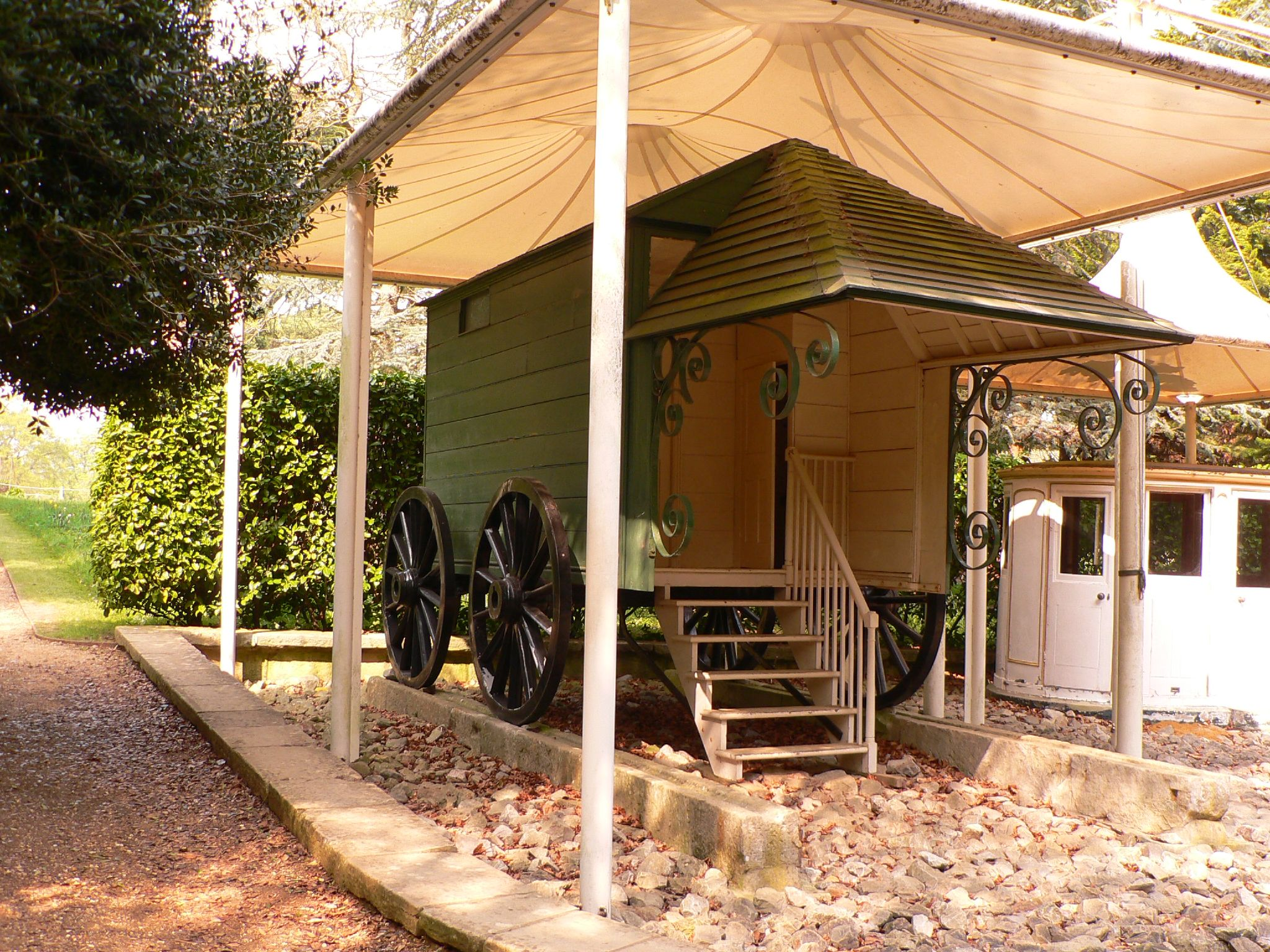 Queen Victorias bathing machine, on display at Osborne House, Isle of Wight. "This cart would have been slowly pushed into the sea, so that Queen Victoria could have a paddle whilst still maintaining her modesty. It just wasnt allowed for ladies of the time to be seen getting undressed, or to be seen in swimwear for that matter".